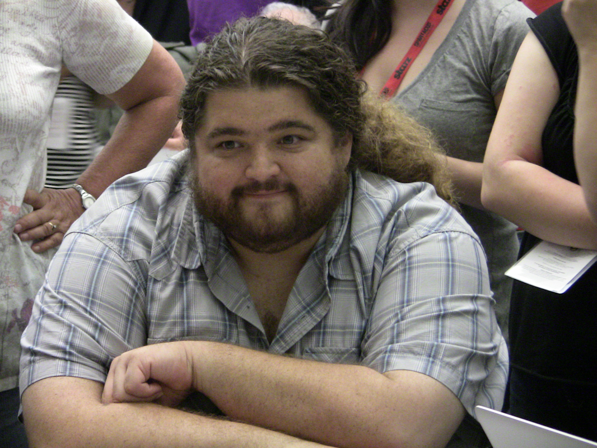 Actor Jorge Garcia – Comic-Con 2009 - Lost press room - San Diego, Calif. - July 25, 2009.